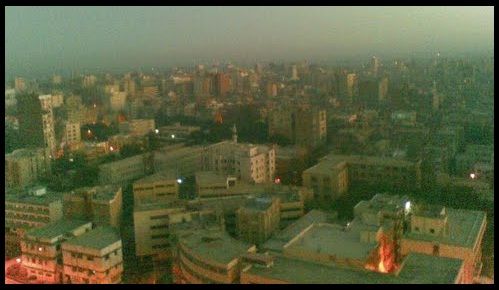 Zagazig, Egypt skyline